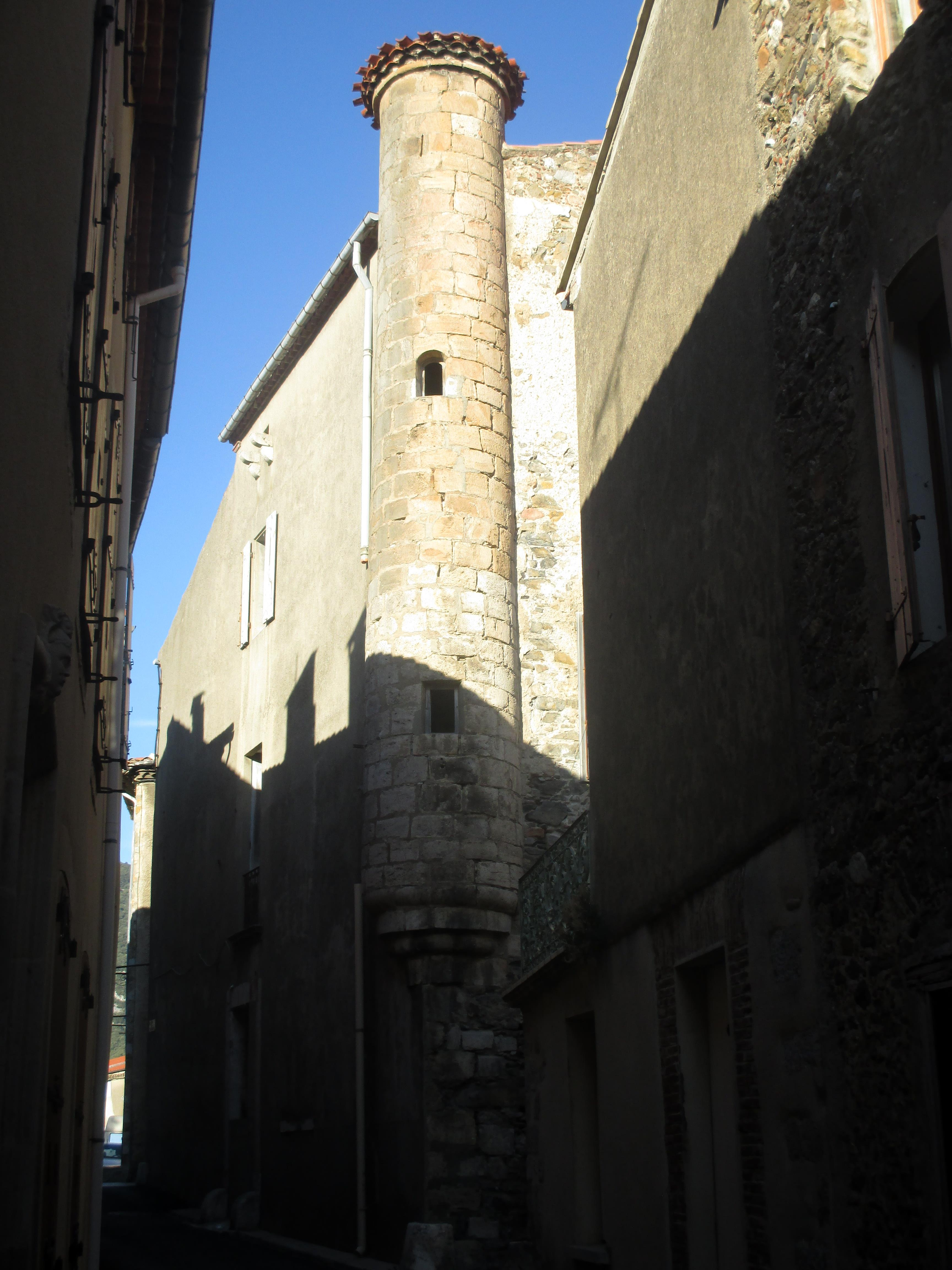 Ancient tower in Caudièrs de Fenolhet